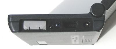 HP 95LX Connectors